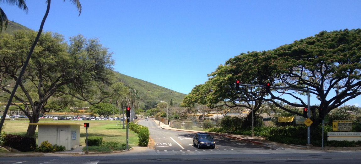 The entrance to Henry J. Kaiser High School located in Honolulu, Hawaii.